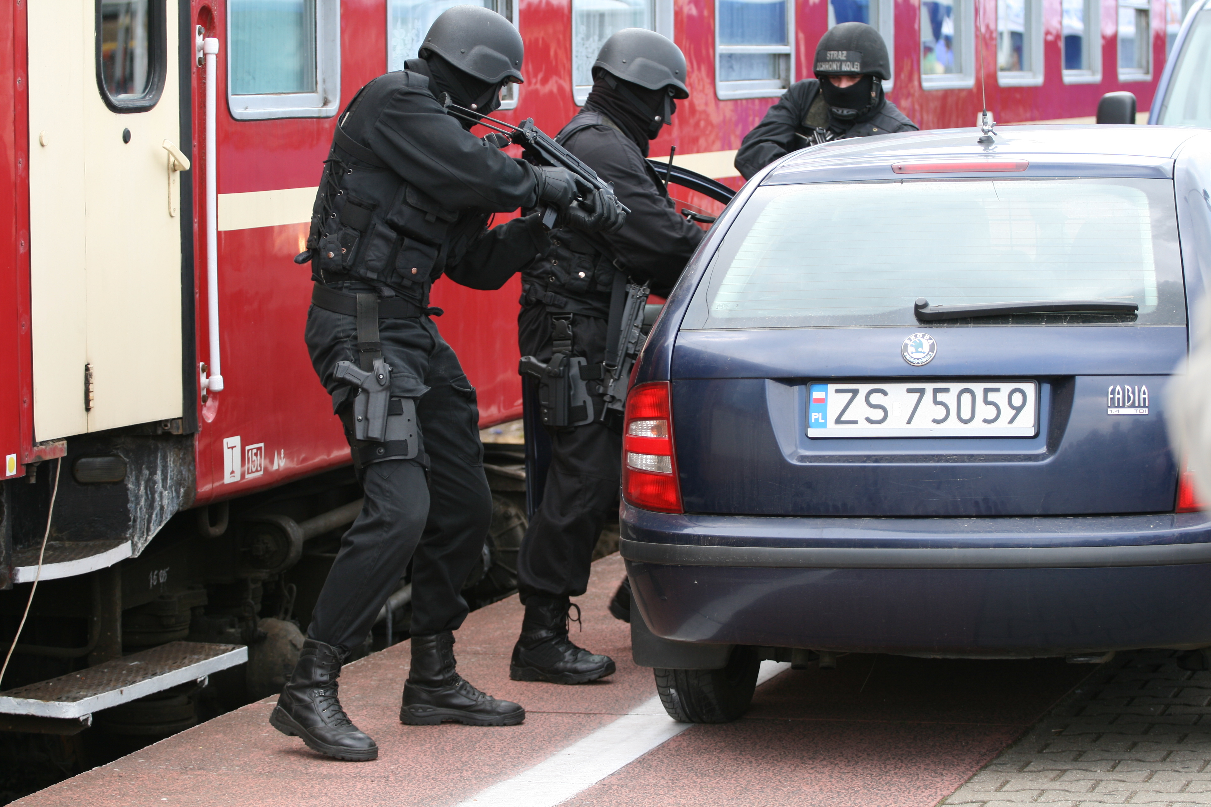 Straż Ochrony Kolei Tactical Unit Assaults the Suspected Vehicle